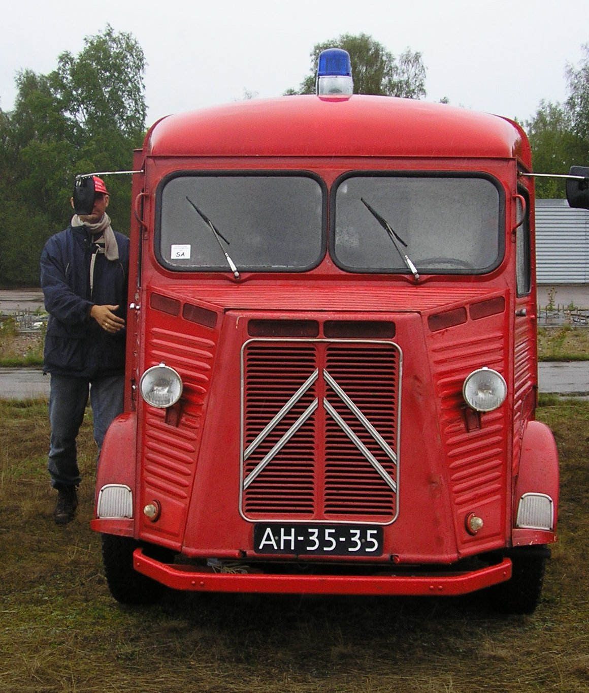 Citroën fire truck spotted at the International SAAB Club Meeting 2006.